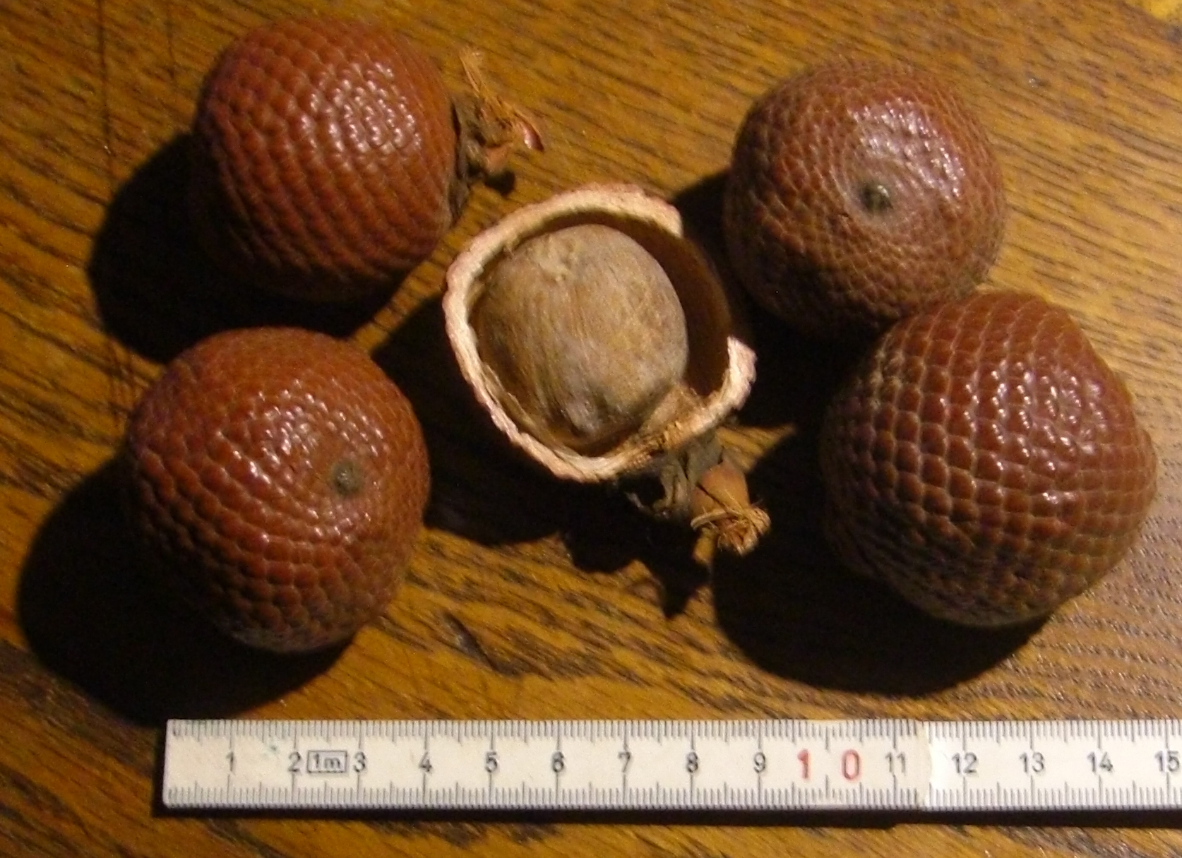 Mauritia flexuosa, edible fruit of palm, called Laranja nut